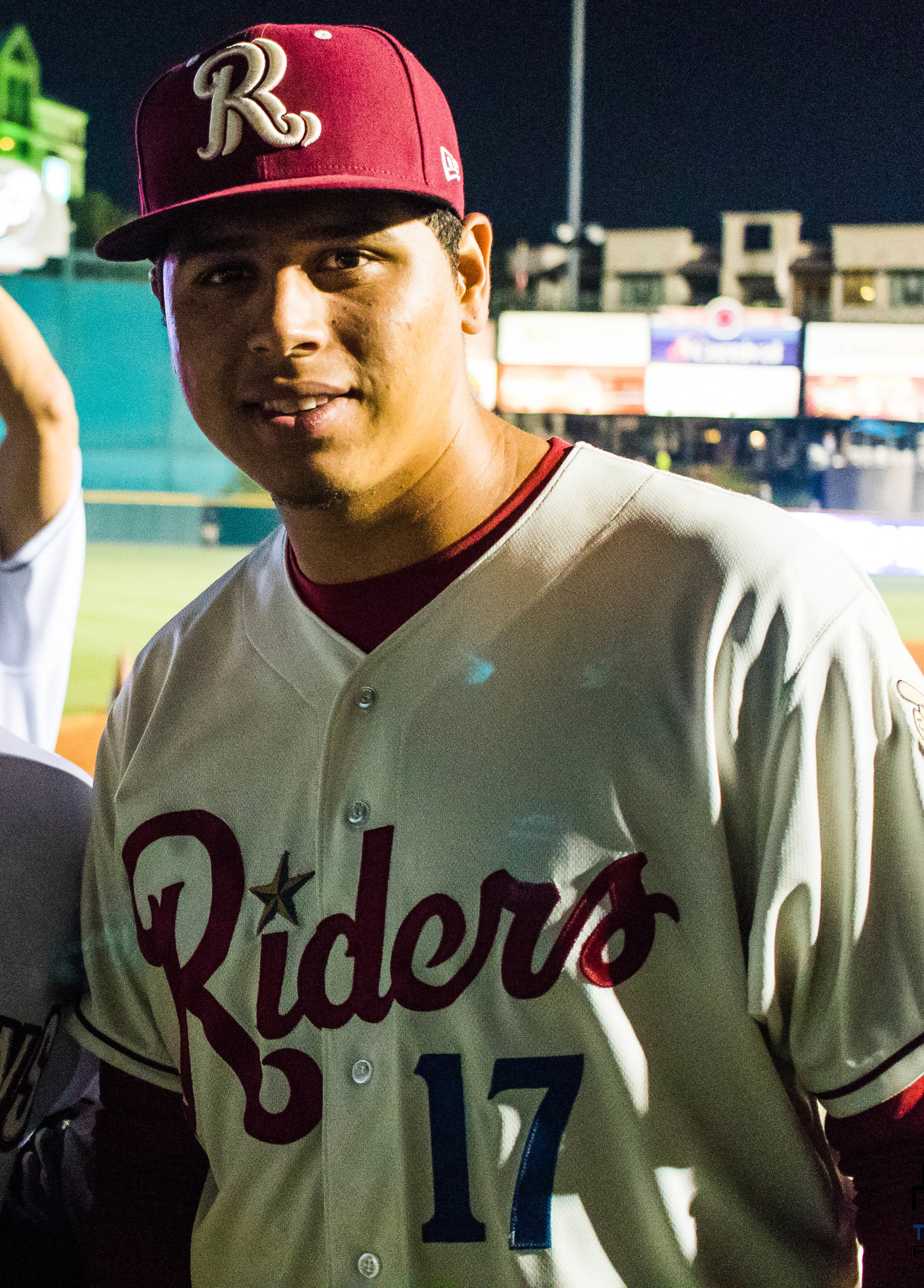 Luis Urias (left) of the San Antonio Missions and Ariel Jurado of the Frisco RoughRiders during the 2017 Texas League All-Star Game